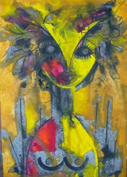 Pintor